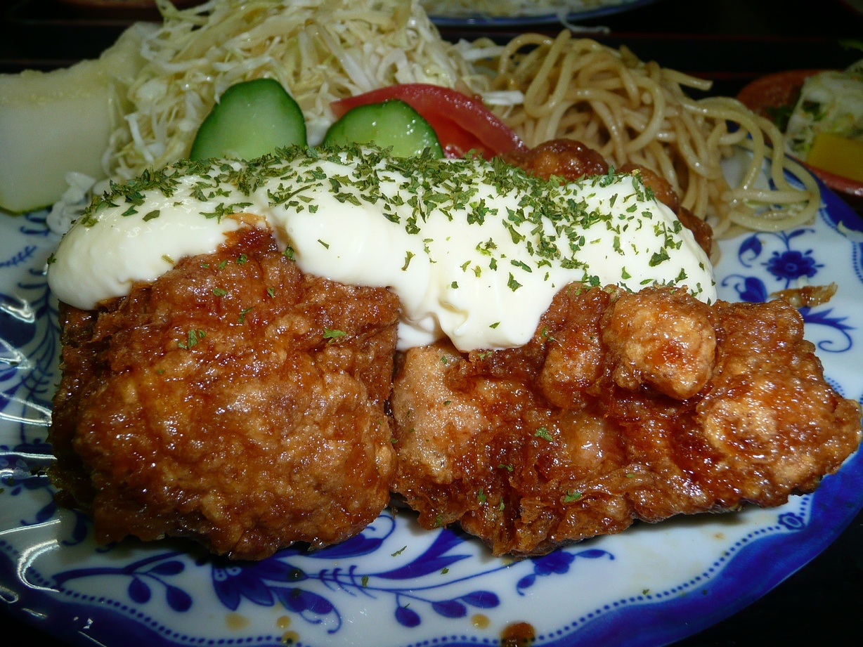 Chicken Nanban (Tonchan - Kiyotake Town, Miyazaki City, Japan)